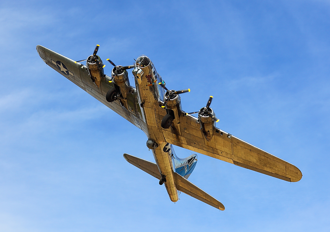 The B-17G Sentimental Journey taking off near the CAF Hangar area of Falcon Field in Mesa, Arizona.